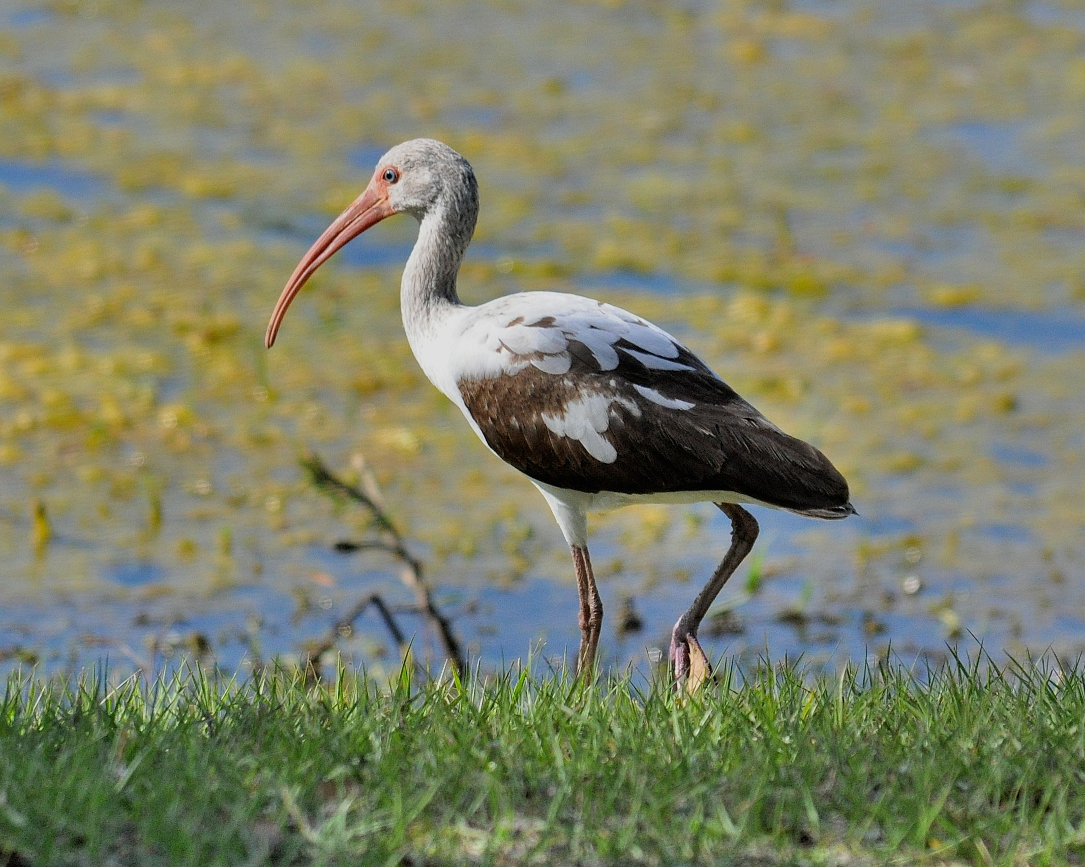 A juvenile American White Ibis in Winter Haven, Florida, USA.